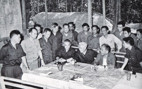 Le Duc Tho from the North to the South together with Pham Hung and General Van Tien Dung on behalf of the Politburo